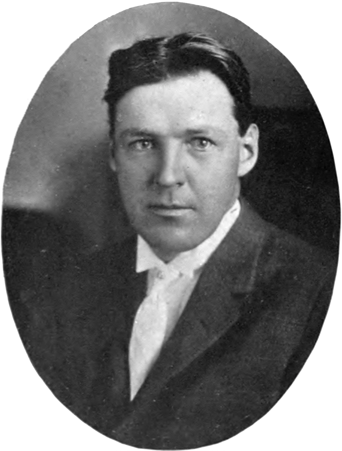 1917 Bench and Bar of Colorado photo of Hildreth Frost, a Colorado Springs-based lawyer of captain in the Colorado National Guard. 1904 Harvard graduate.